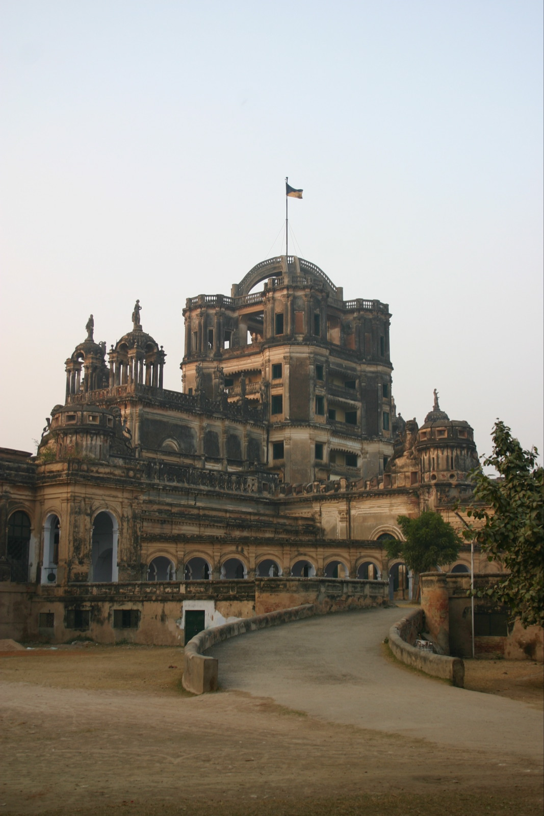 La Martiniere is an old Private school that was once a British School. La Martinière College is a private school located in Lucknow in the state of Uttar Pradesh in India. The College consists of two schools on different campuses for boys and girls. La Martinière Boys' College was founded in 1845 and La Martinière Girls' College was established in 1869. The Boys' College is the only school in the world to earn a battle honour. The two Lucknow colleges are part of the La Martinière family of schools named after the French adventurer Major General Claude Martin. There are two La Martinière Colleges in Kolkata and three in Lyon. La Martinière provides a liberal education and the medium of instruction is the English language. The schools cater for pupils from the ages of five through to 17 or 18, and are open to children of all religious denominations. The schools have both day scholars and boarders.